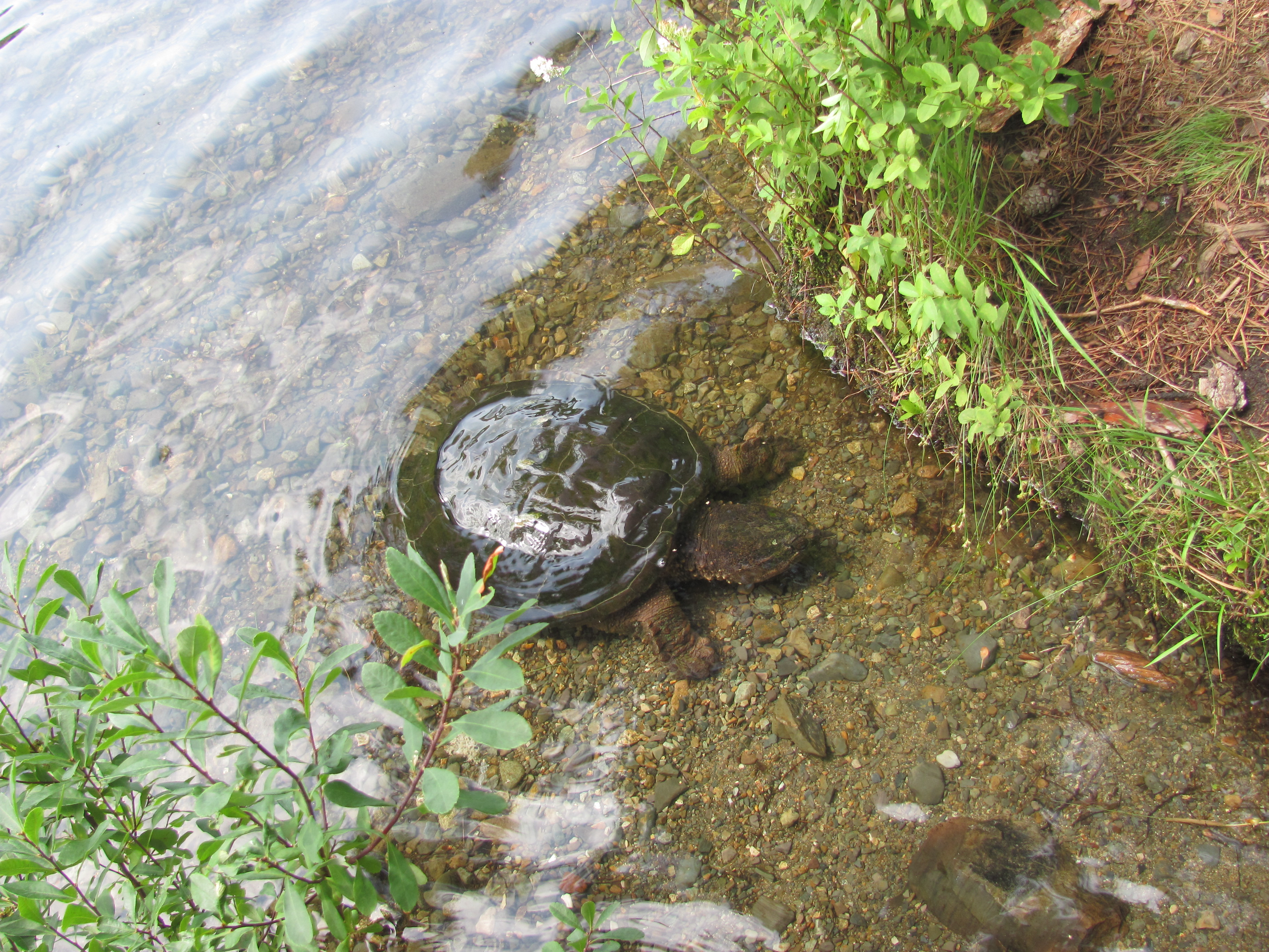 A snapping turtle visits a campsite on Cross Lake, Temagami, Ontario in summer 2017.